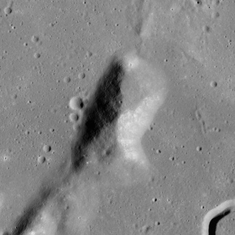 Bennett Hill, Hadley–Apennine, on the moon. Centered on the summit.